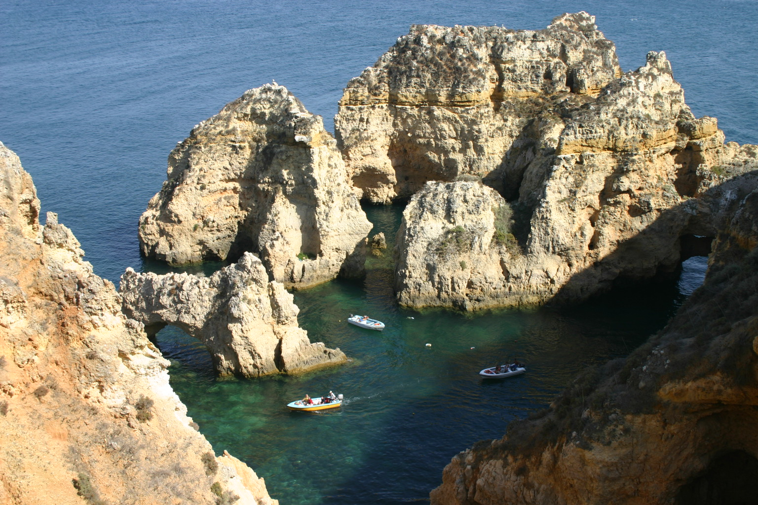 Author: António M.L. Cabral; Copy permited if the name of the author is included.